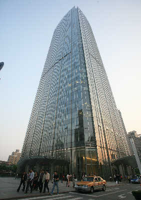 The Center Shanghai